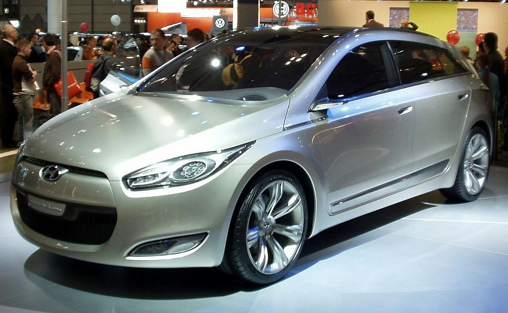 Hyundai HED-II Genus Concept